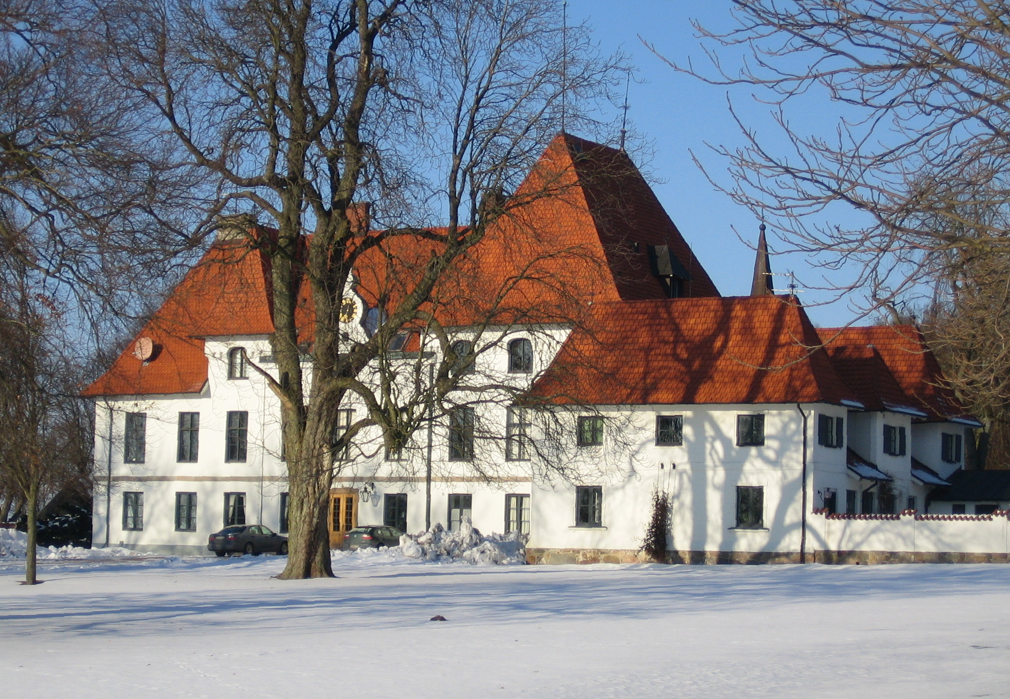 Picture of Björstorp Castle in Scania, Sweden.